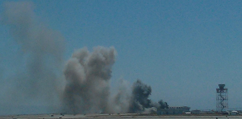 Cropped version of File:Asiana Airlines flight 214 crash at SFO- Taken from my phone on board a plane at Terminal 1- 2013-07-06 15-58.jpg